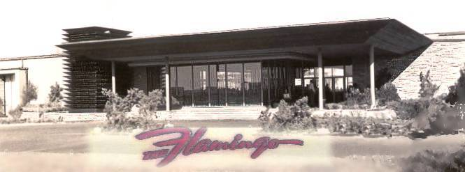 Front entrance Flamingo Hotel & Casino 1945